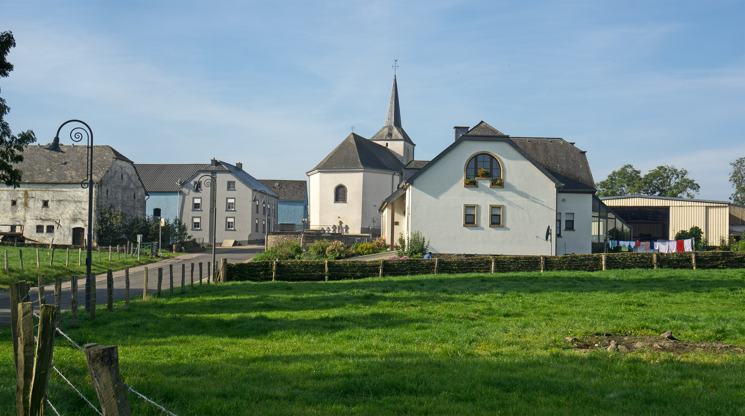 Crendal